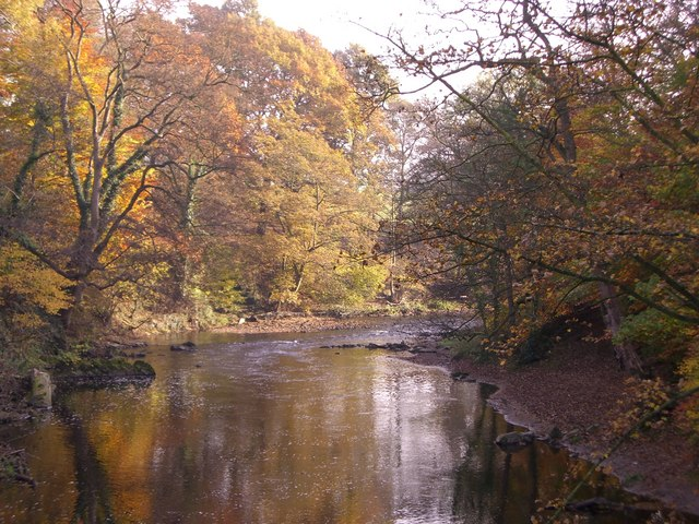 River Goyt in Woodbank Park Autumn colours along the River Goyt as it meanders into Stockport.